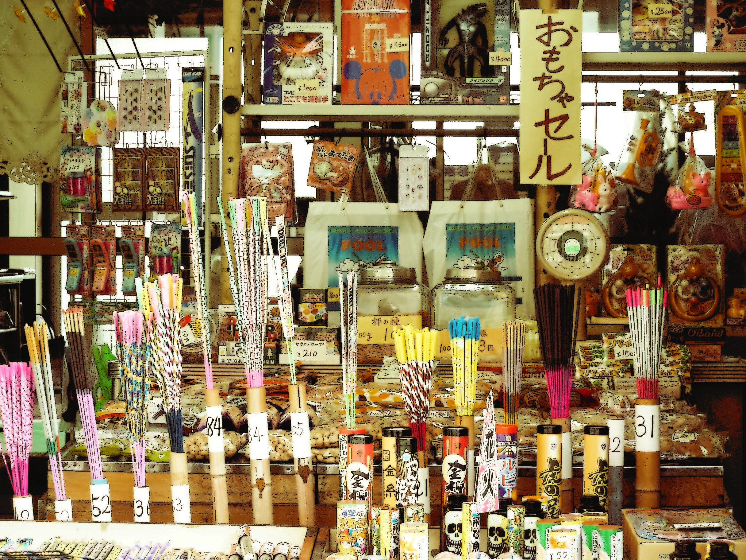 Candy and toys store for kids selling fireworks